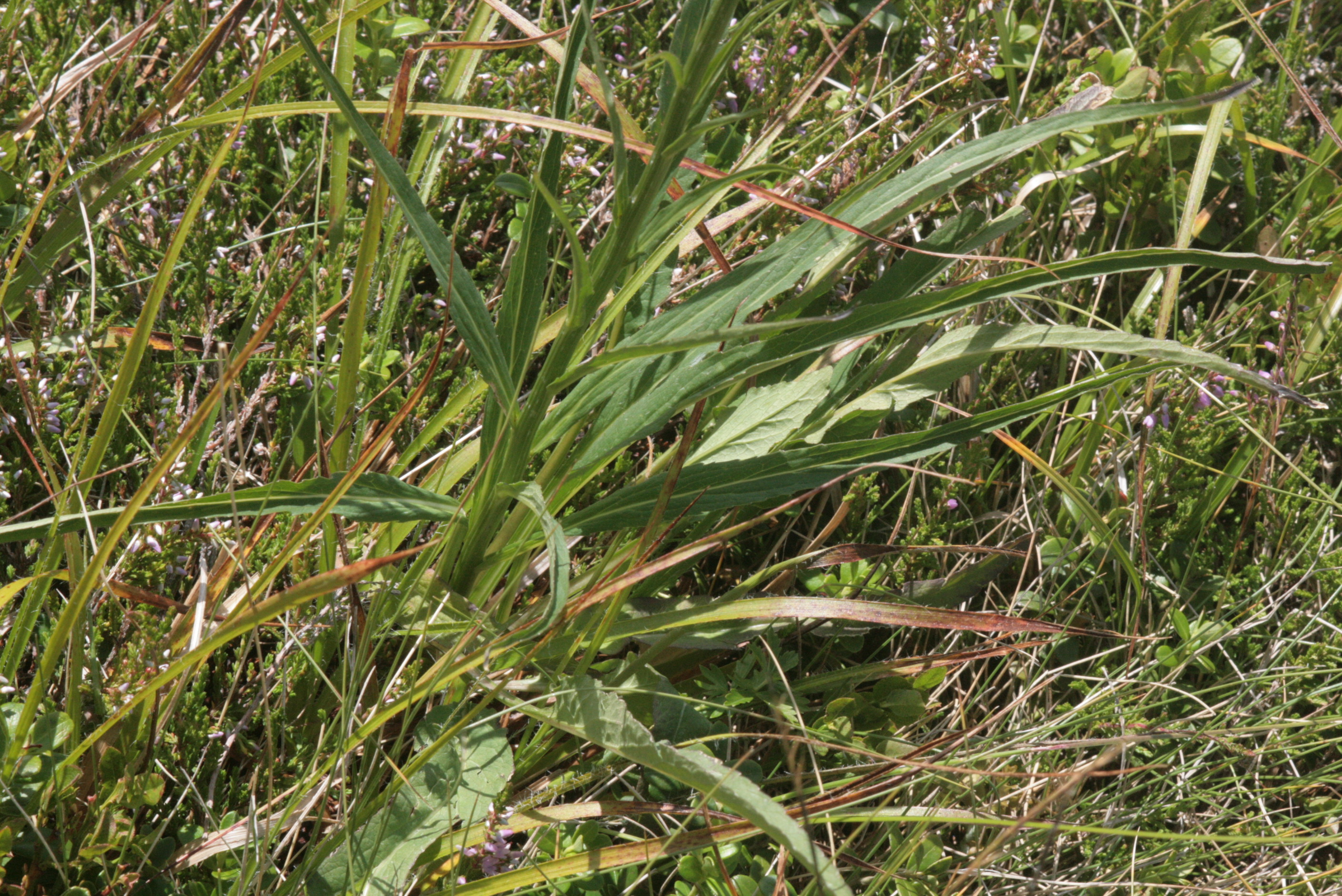 Phyteuma persicifolium